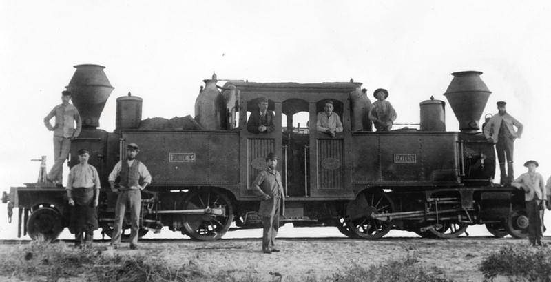 Side view of Avonside 1241-42, believed to be Fairlie No.2, later WAGR E class No.7 Geraldton, photographed at Geraldton, Western Australia. All of the Geraldton workshops staff can be seen in the image. The man in the bowler hat is Mr Clough, the locomotive superintendent at Fremantle. He had been transferrred to Geraldton to supervise the erection of the locomotive.